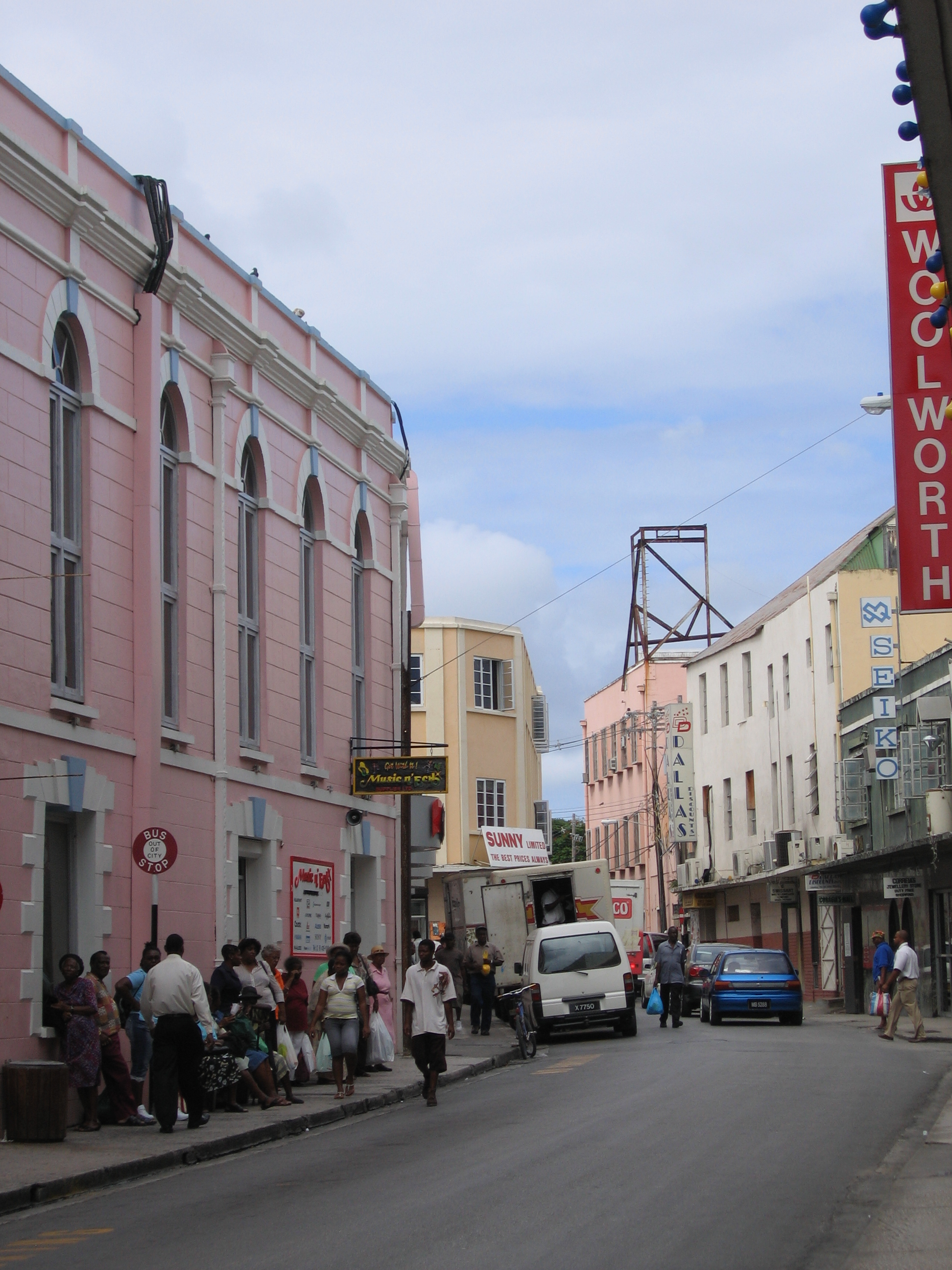 Bridgetown, Saint Michael, Barbados.